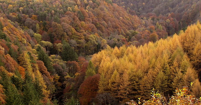 Autumn at Staward Gorge Viewed from Staward Peel